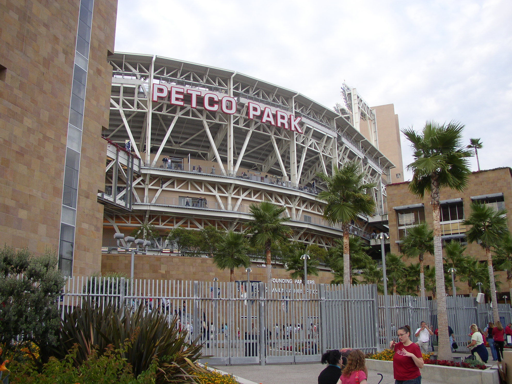 Shot at Petco Park of the San Diego Padres in San Diego, California.